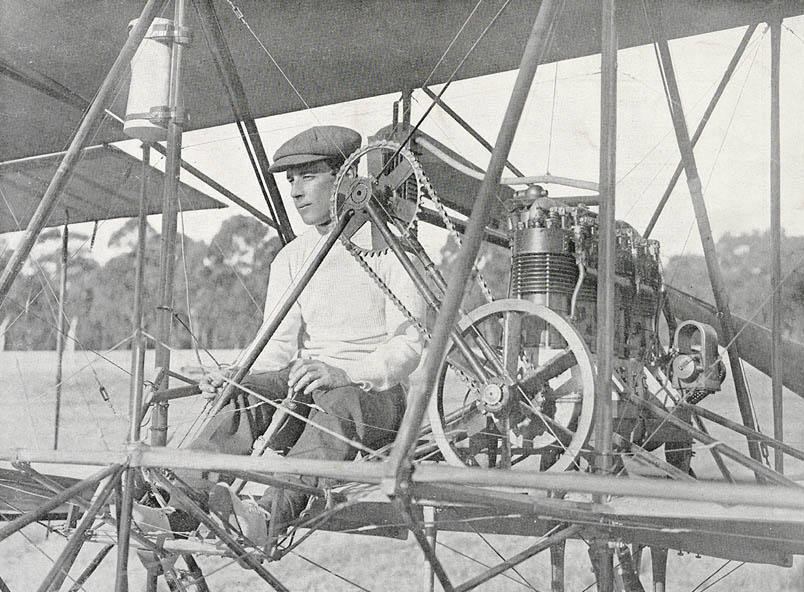 John R. Duigan at the controls of his first powered aircraft